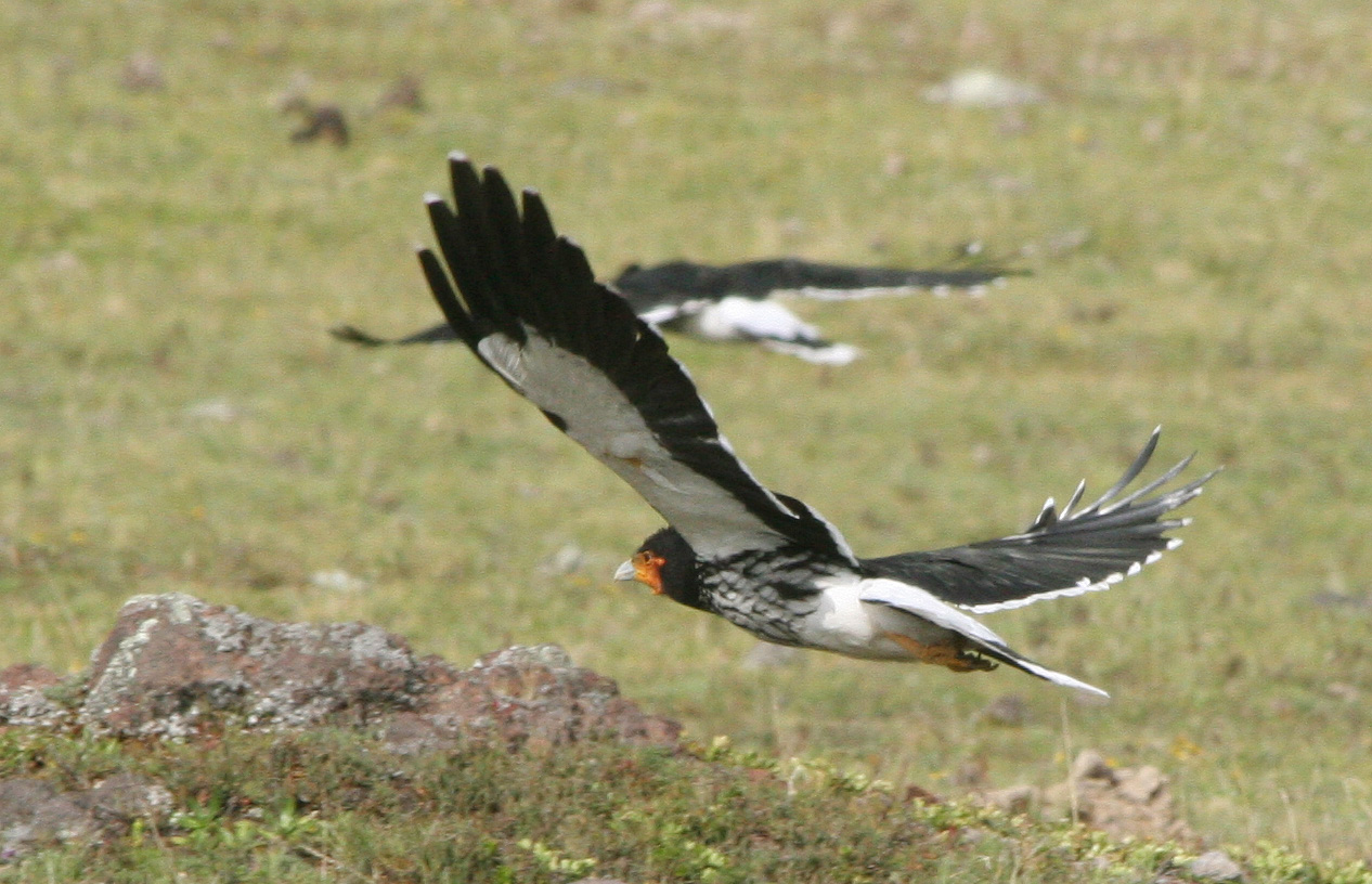 Carunculated Caracara photographed by Tad Boniecki in February 2007, Cotopaxi National Park (Ecuador) at 3750 metres altitude.